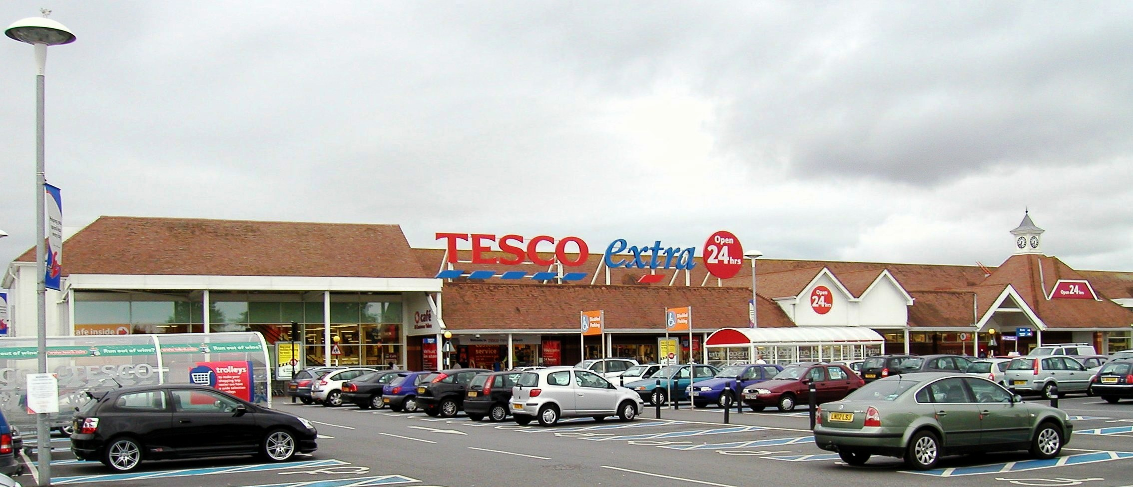 Tesco Extra, Town Lane, Kew, Southport, Merseyside, England